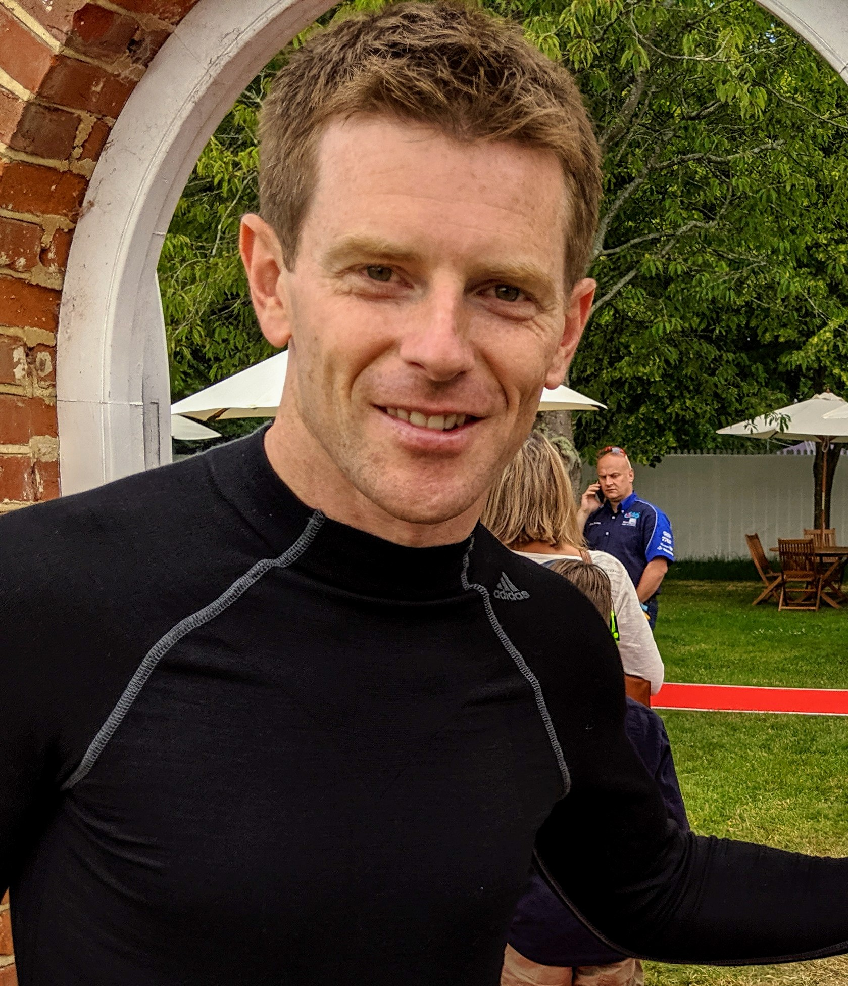 Anthony Davidson Goodwood Festival of Speed 2019.